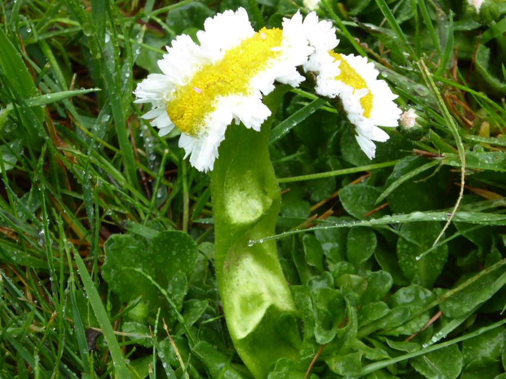 Fasciation: A "crested" common daisy (Bellis perennis) in Landkreis Regen, Bavaria (Germany)